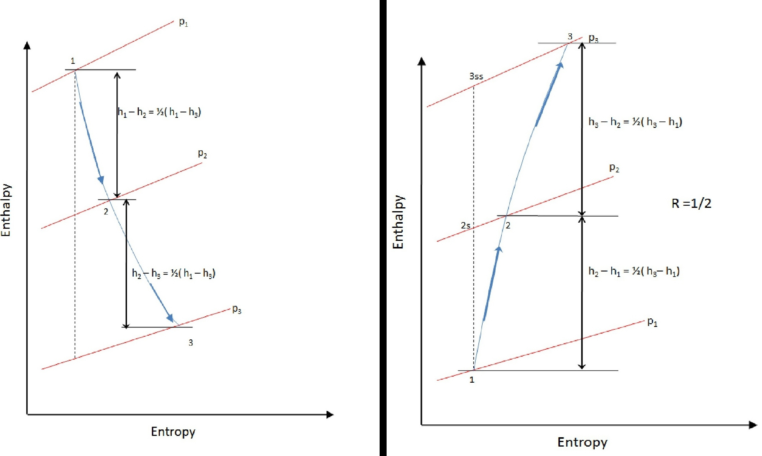 This diagram represents the stage enthalpy drop for the case when degree of reaction is half for a turbine and the enthalpy rise in a pump.